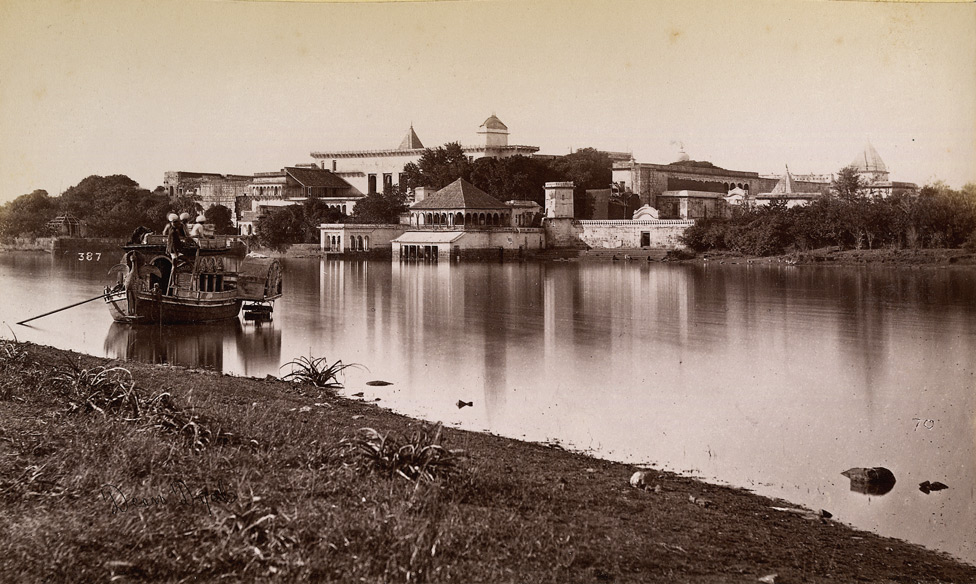 Photograph of the Govindgarh palace of the Maharajah of Rewa. The palace which was built as a hunting lodge, later became famous for the first while tigers that were found in the adjacent jungle and raised in the palace zoo. Uploaded by Fowler&fowler«Talk» 07:14, 22 November 2008 (UTC)